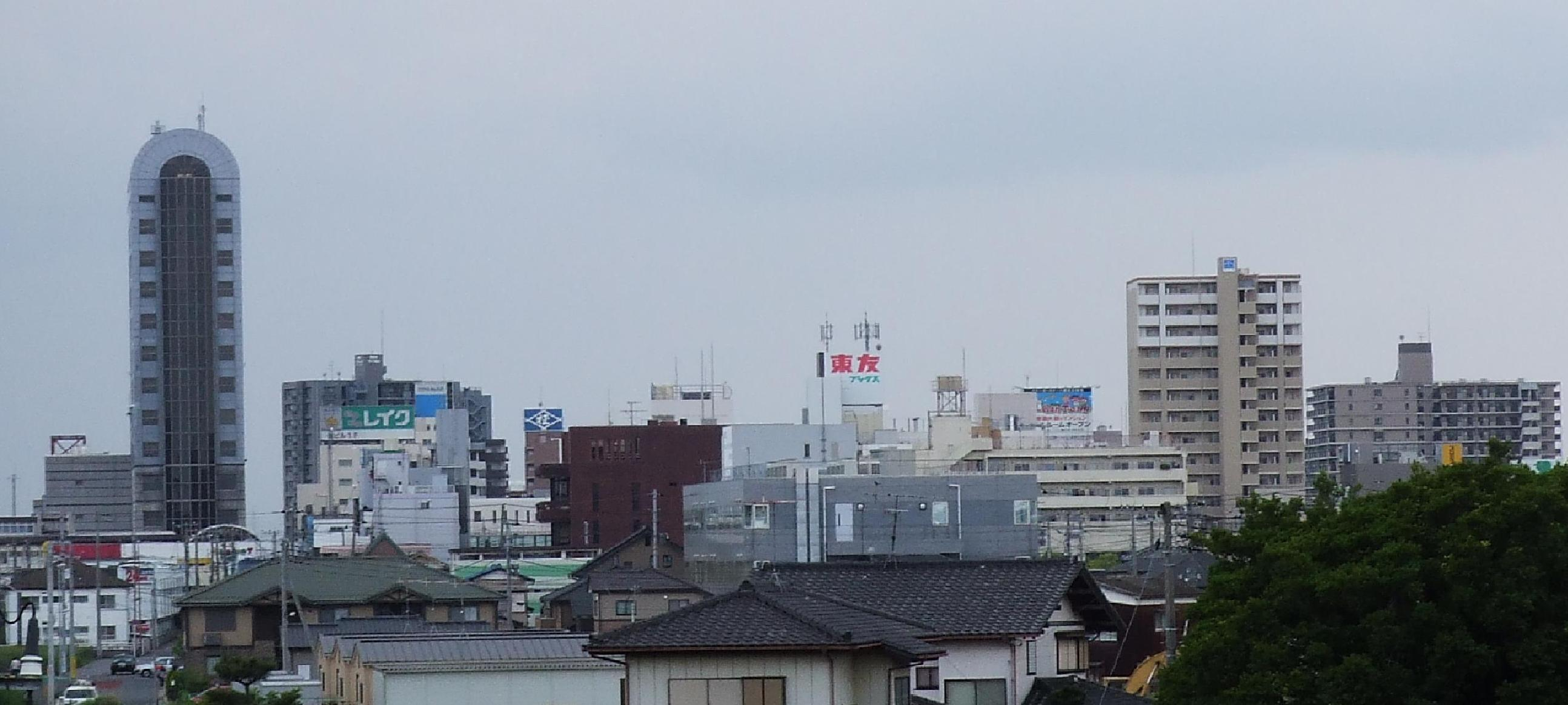 The skyline of Ichihara around Goi Station in Chiba Prefecture, Japan